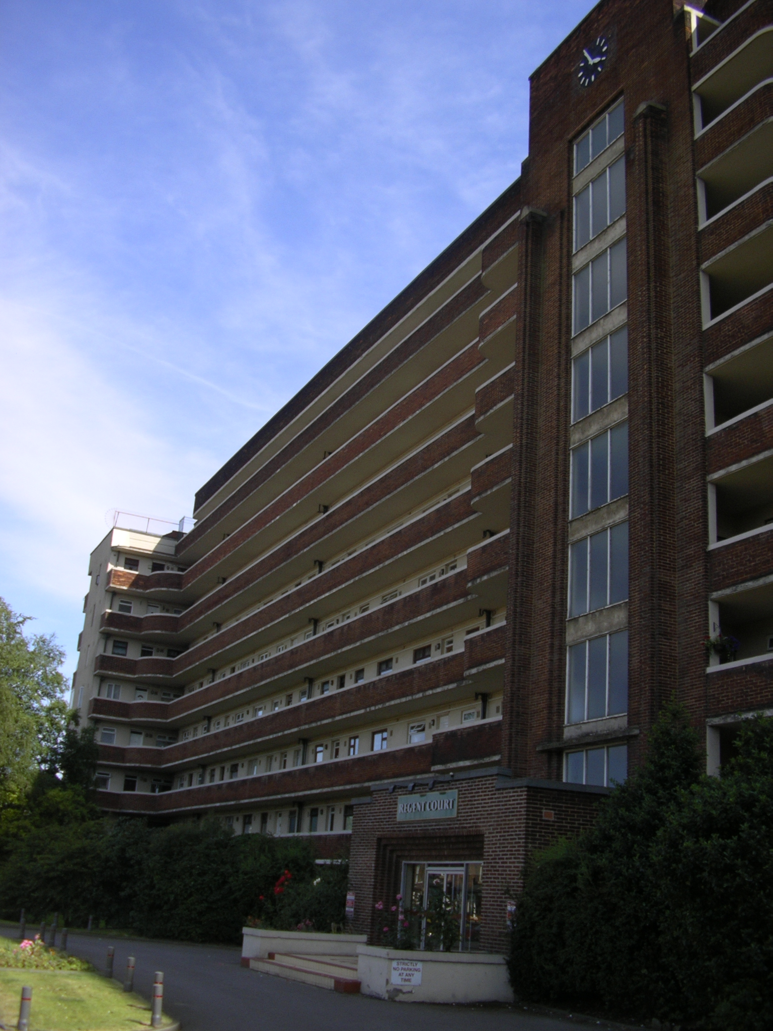 The eastern half of Regent Court in Sheffield, from the north.